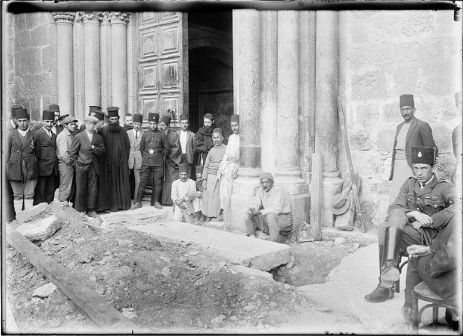 Ledger stone of crusader Philip d'Aubigny (c.a. 1166 – c.a. 1236) at the Church of the Holy Sepulchre in Jerusalem, which was moved and protected with a grille in 1925. (Source:T. Bolen and T. Powers, 2009 and Raymond Cohen, Saving the Holy Sepulchre, 2008, p. 25). He was an Anglo-Norman knight, one of 5 sons of Ralph d'Aubigny and Sybil Valoignes whose ancestral home was Saint Aubin-d'Aubigné in Brittany. In England he was lord of the manor of Chewton Mendip, South Petherton, Bampton, Waltham and Ingleby and Keeper of the Channel Islands. The ledger stone is inscribed in Latin ("Here lies Philip d'Aubigny. May his soul rest in peace. Amen".) and displays his arms: Gules, four fusils conjoined in fess argent. His family was later known in England as "Daubeney". Text from The Status Quo document regarding the holy places (as published by the British) explains how the marker survived the centuries in such good condition: “Thanks to the fact that for a long period it was protected by a stone divan built over it for the use of the Moslem guards, the tombstone is in a tolerably good state of preservation.” In 1925, during the British Mandate over Palestine, an excavation of the grave for purposes of restoration uncovered Sir Philip’s bones as well as tablets inscribed in Latin describing his family tree. Based on these explorations, Sir Ronald Storrs, the military governor of Jerusalem, authenticated the tomb and Philip’s lineage in a 1925 article published in The Times of London. The restoration of the grave was carried out by the British Pro-Jerusalem Society headed by Storrs. At that time the tombstone was re-set slightly below the level of the courtyard pavement but left visible through a protective metal grating. Today the slab lies in exactly the same spot, but hidden from view by a well-worn wooden hatch".